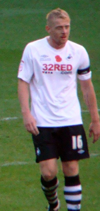 07/11/10 Cardiff V Swansea, Championship, Cardiff City Stadium, Cardiff, Wales